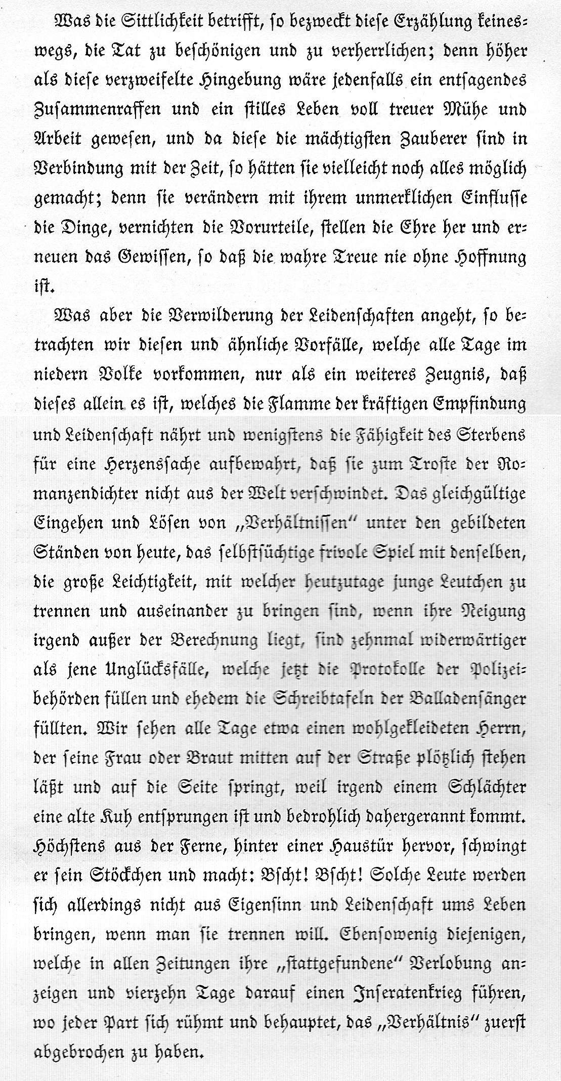 "A Village Romeo and Juliet", Author's concluding note, first edition 1856